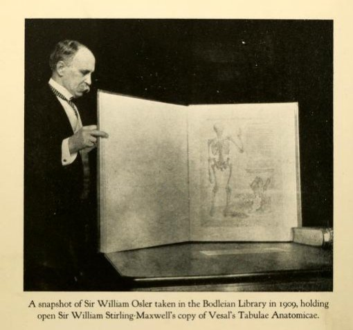 From the book: William Osler, the man (1920) Author: Cushing, Harvey, 1869-1939 Subject: Osler, William, Sir, 1849-1919 Publisher: [New York, Hoeber] Language: English Call number: 6857098 Digitizing sponsor: Open Knowledge Commons Book contributor: Columbia University Libraries Collection: medicalheritagelibrary; ColumbiaUniversityLibraries; americana Notes: No Title page Description Reprinted from the summer number, 1919, Annals of medical history